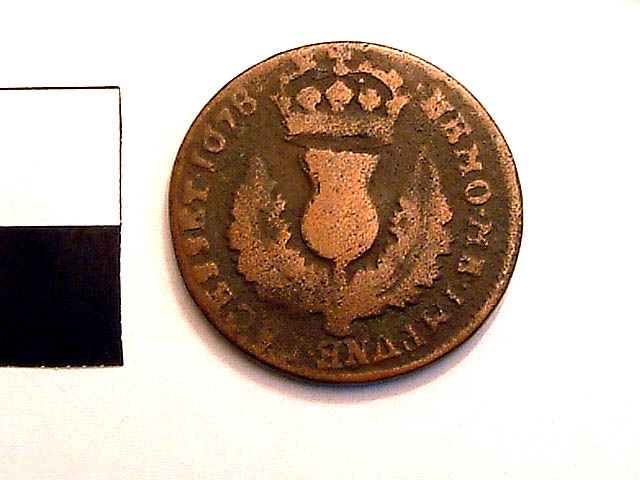 A machine stamped Scottish copper alloy sixpence (known as a bawbee) of Charles II's second Scottish coinage minted in 1678.